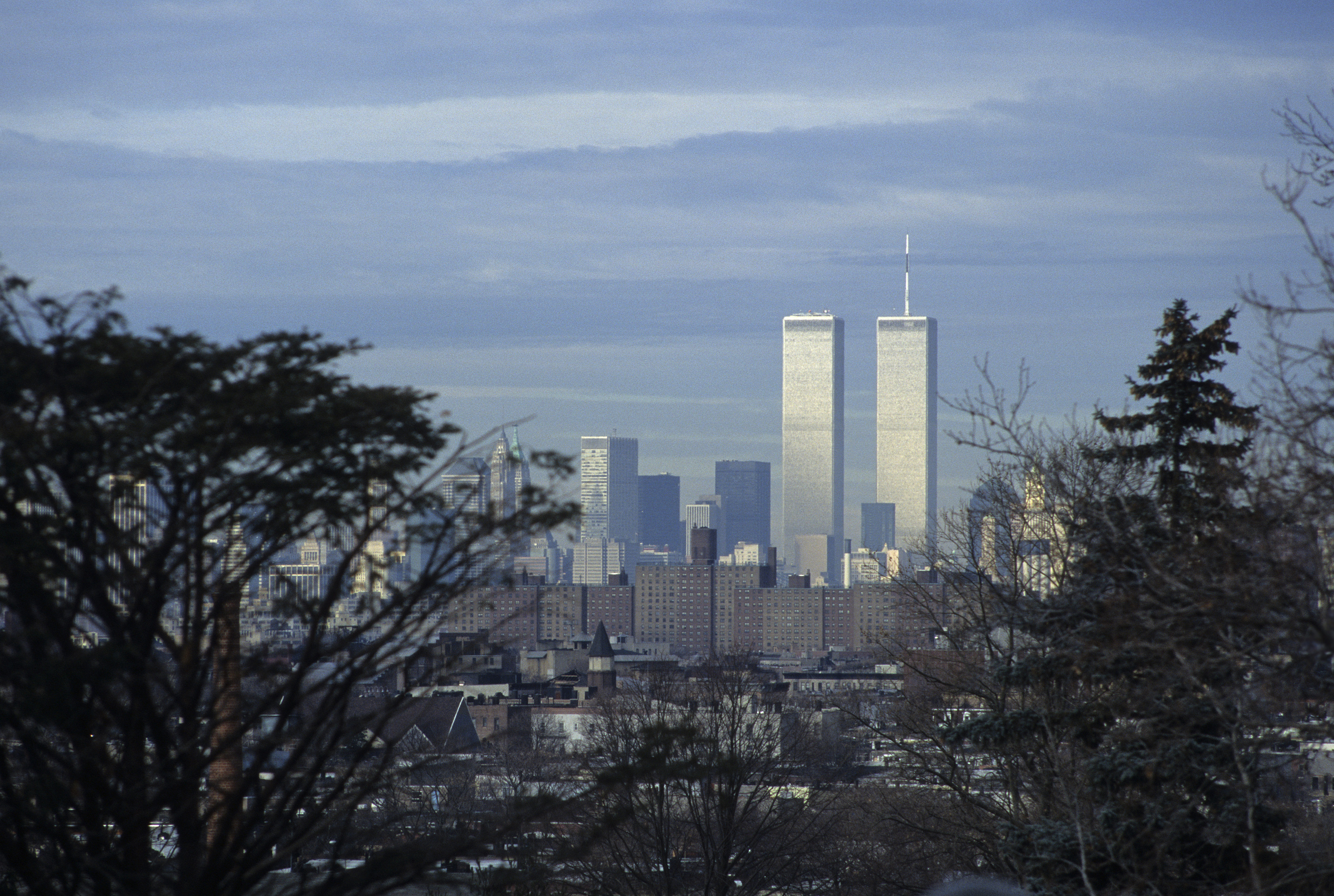 World Trade Center from Queens